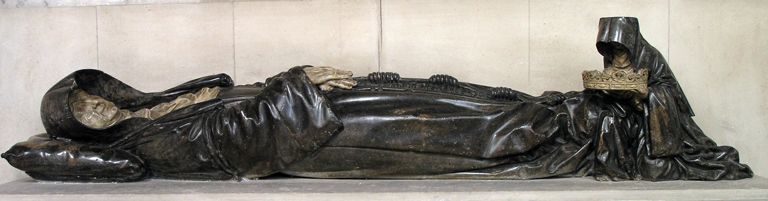 The statue is the work of Ligier Richier (d. 1567), and was commissioned after the death of the duchess. It is now in the Cordeliers church in Nancy.